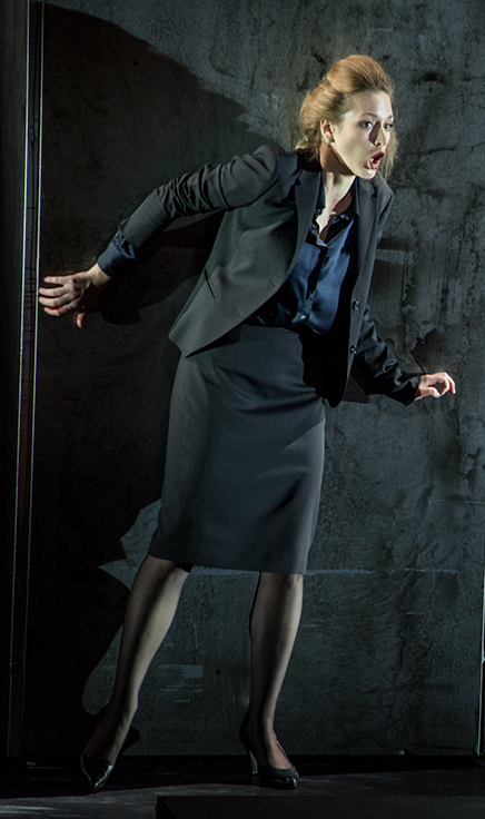 Opera "La Juive" by Eugène Scribe and Jacques Fromental Halévy, new production at Bayerische Staatsoper (Bavarian State Opera) in Munich, June 2016, directed by Calixto Bieito, sets by Rebecca Ringst, costumes by Ingo Krügler, video design by Sarah Derendinger, light design by Michael Bauer, conducted by Bertrand de Billy - this scene with Vera-Lotte Böcker (Princesse Eudoxie) and Aleksandra Kurzak (Rachel)